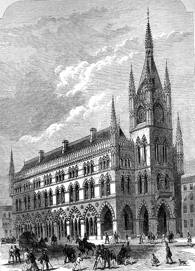 Lithograph of the Wool Exchange, Bradford, West Yorkshire, England. Designed by Lockwood & Mawson, and opened in 1867.